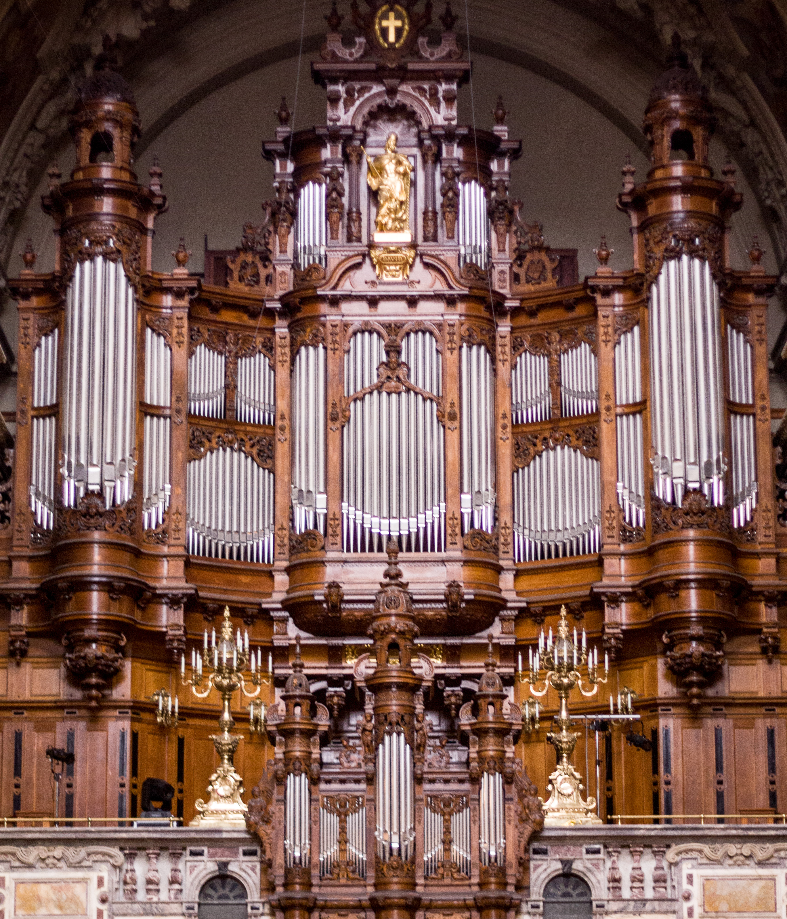 Organ of the Berlin Cathedral This is a photograph of an architectural monument.